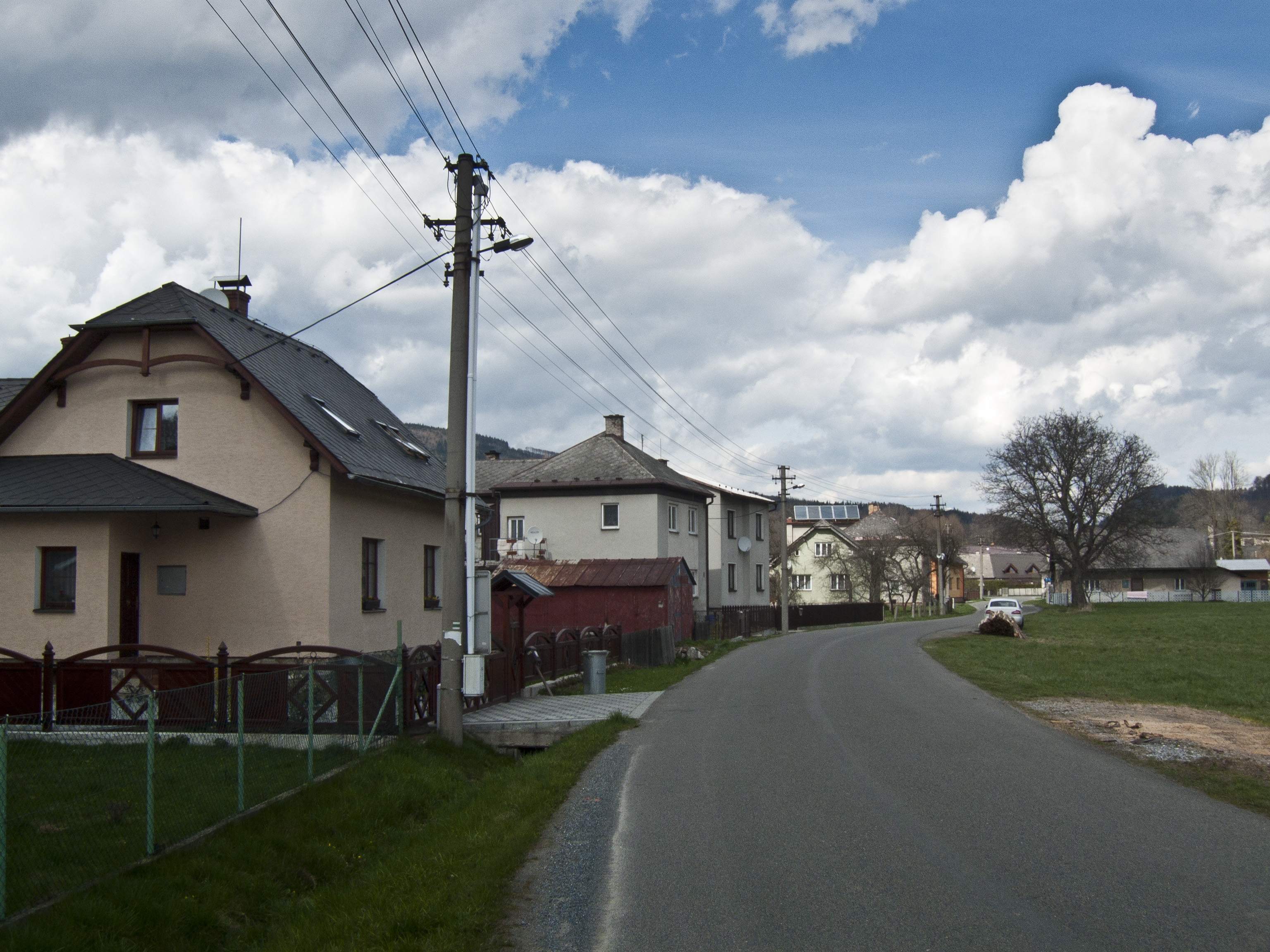 Bohdíkov, Šumperk District, Czechia.